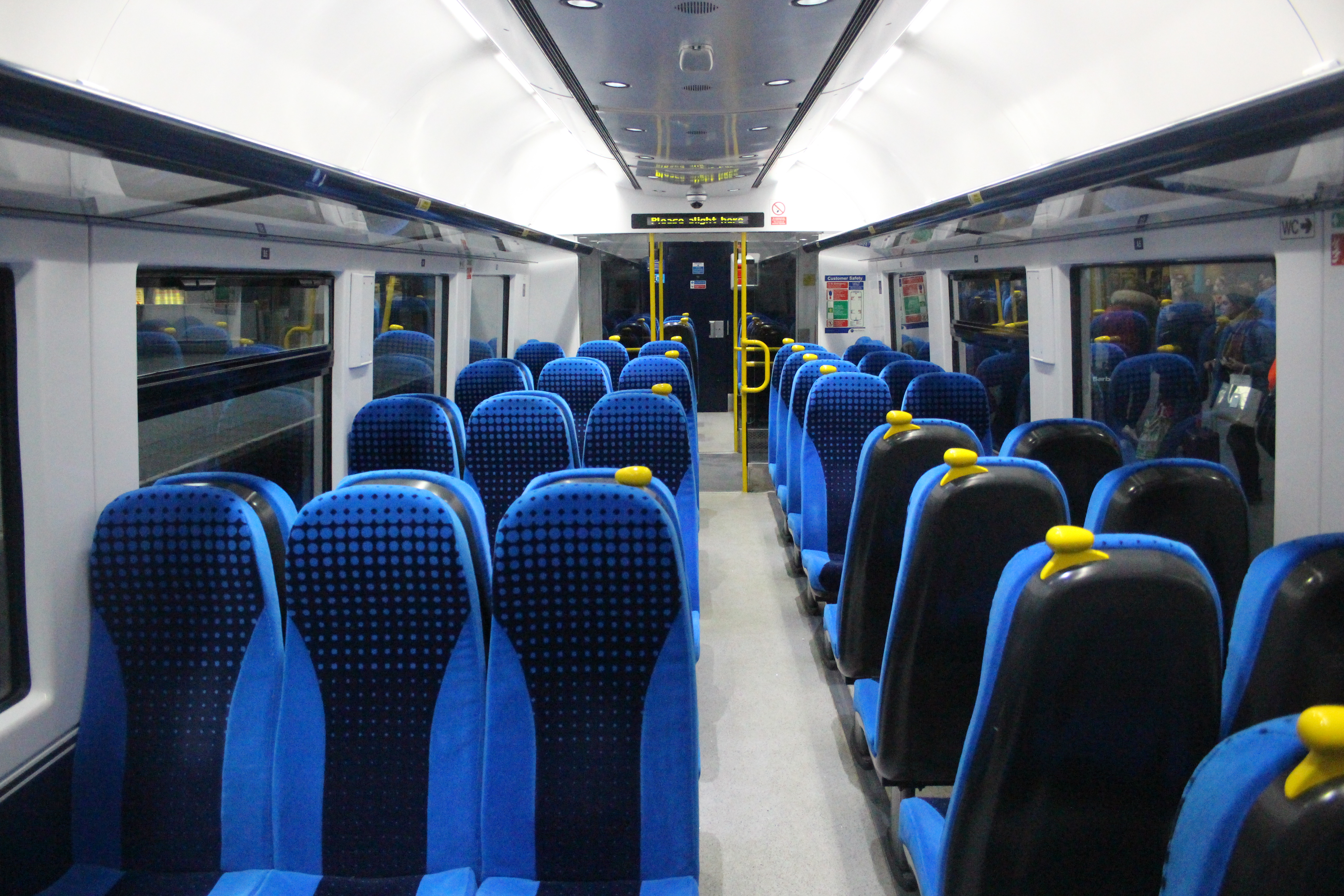 The interior of a Class 333 EMU's driving vehicle, after refurbishment with Arriva Rail North. This was unit 333001, captured in May 2019.